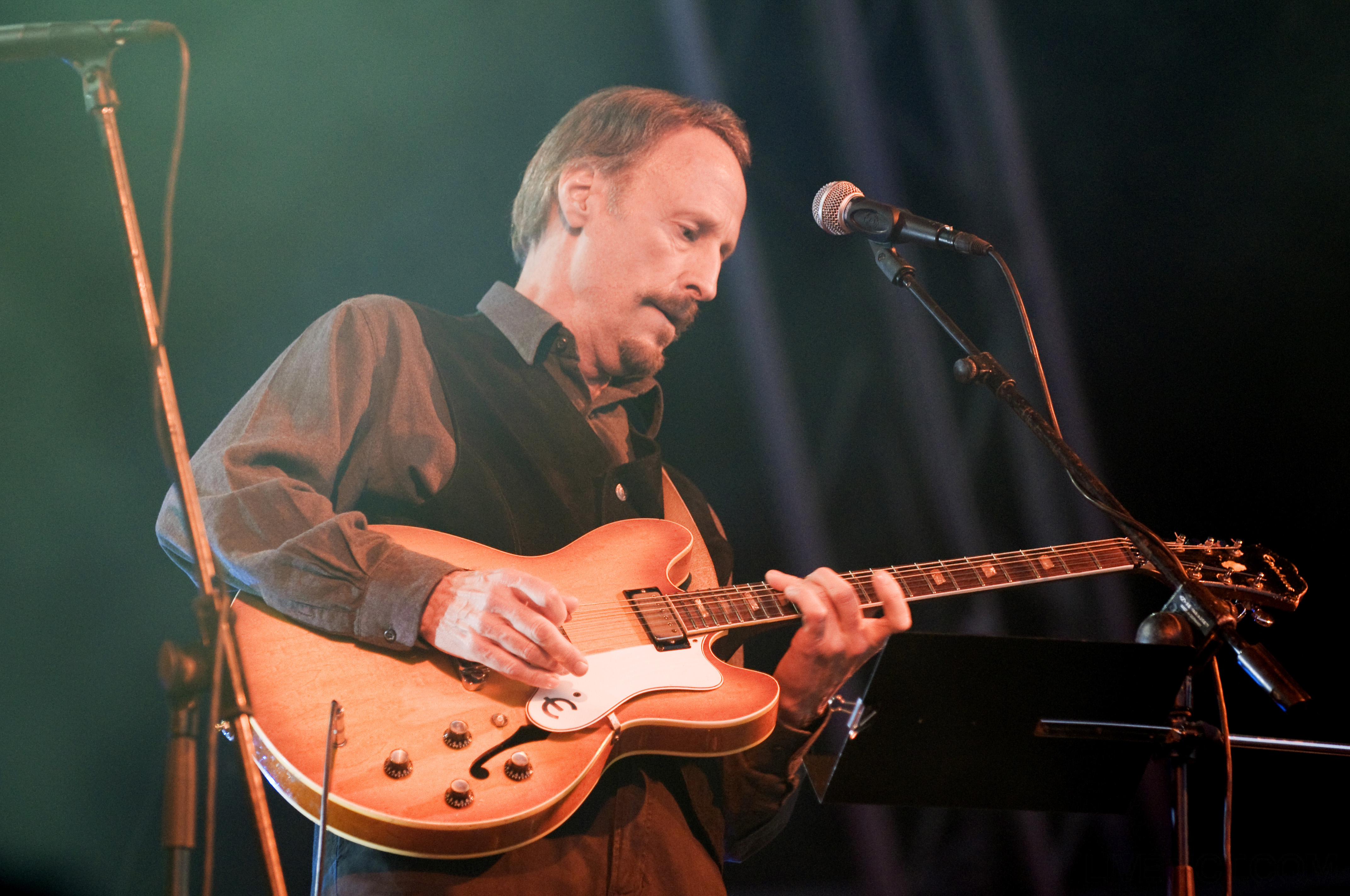 Guitarist Larry Parypa of The Sonics.